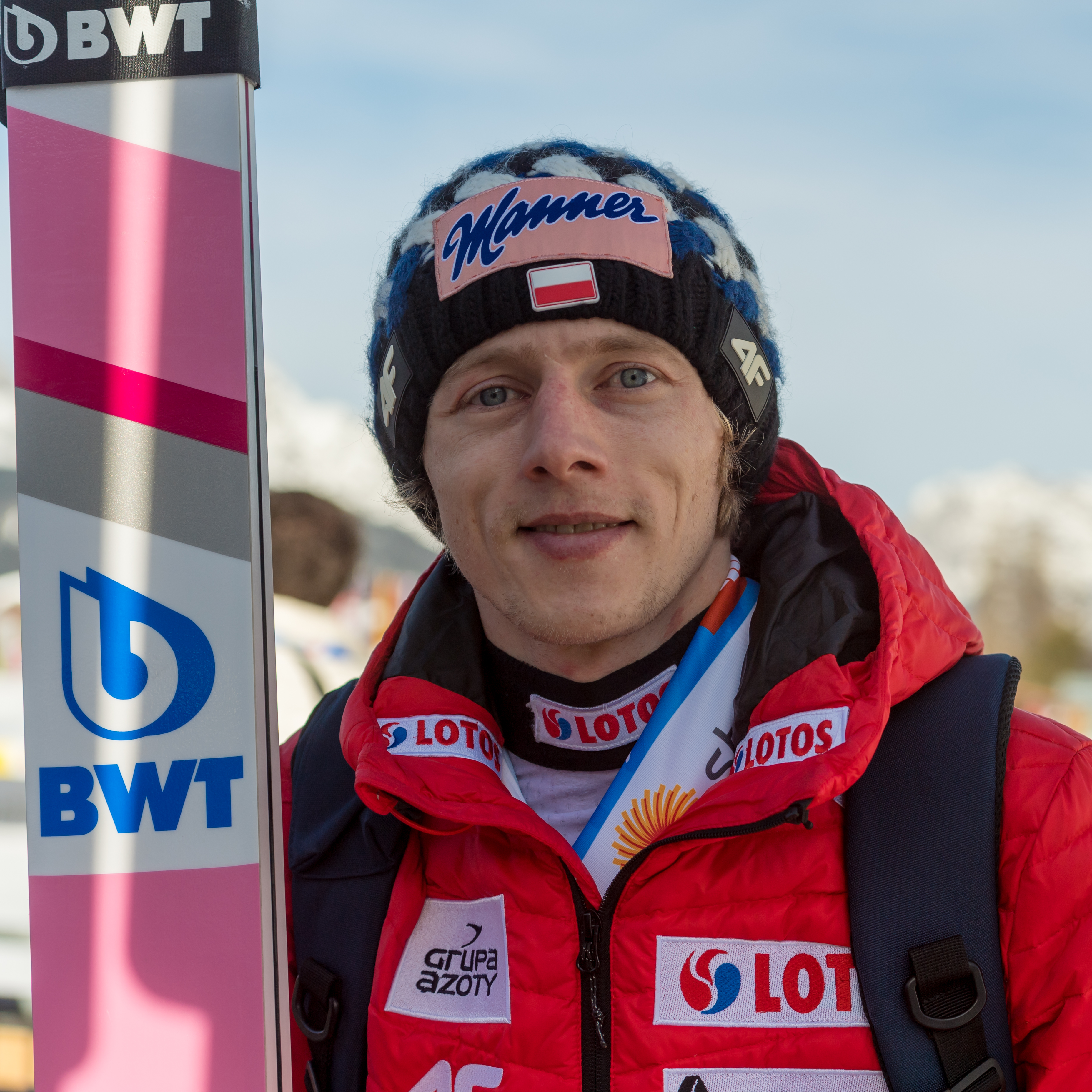 Seefeld, February 26, 2019: FIS Nordic World Ski Championships, Ski Jumping Training Men.